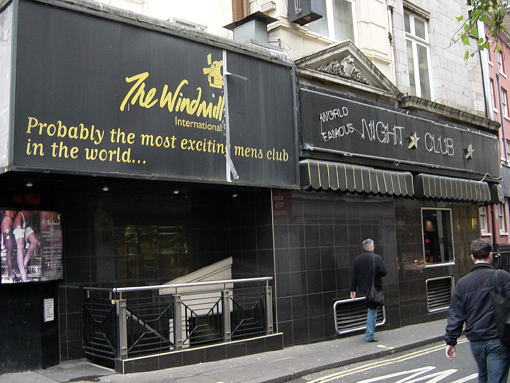 Windmill Club, Great Windmill Street, London.